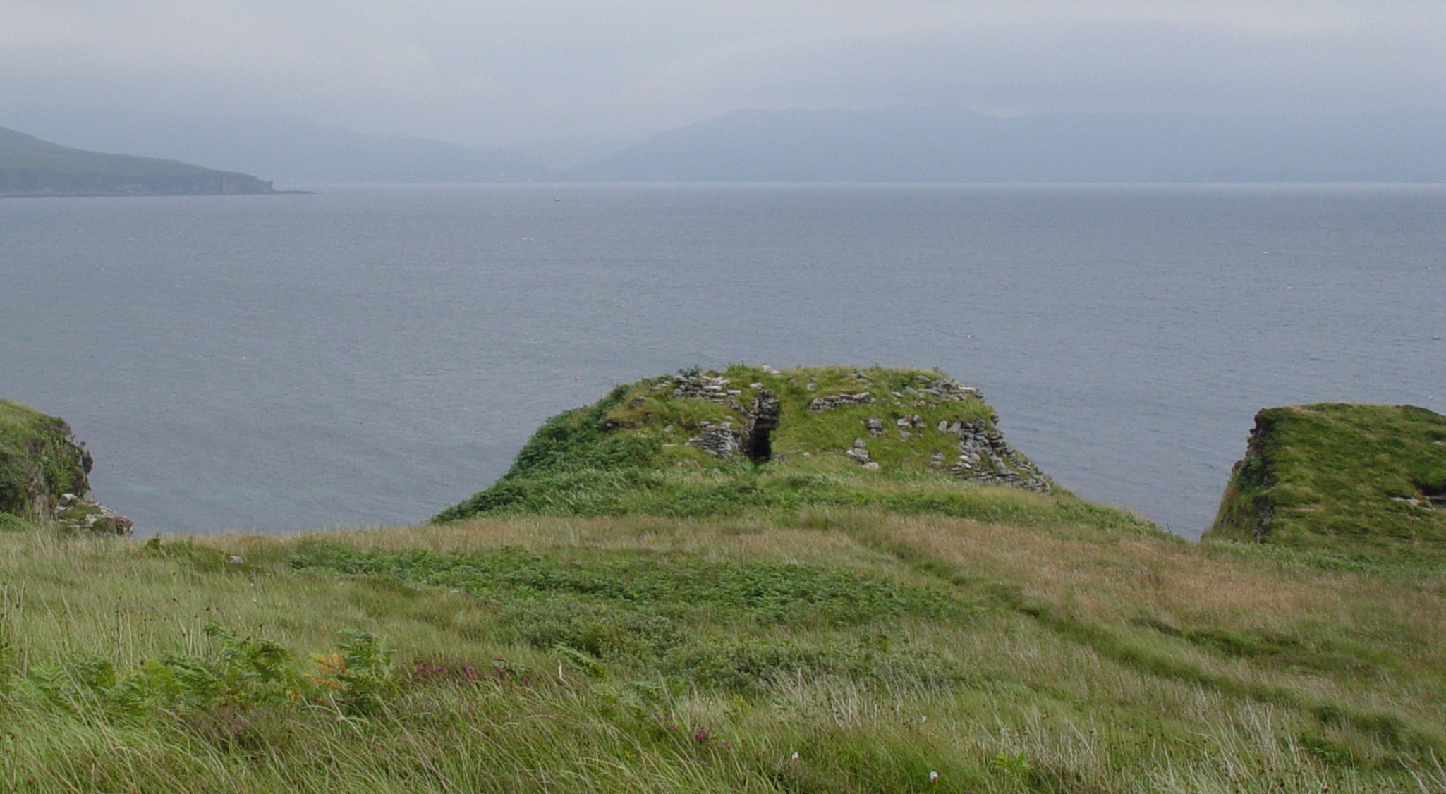 Dun Ringill fort on the Isle of Skye, Scotland. The structure is approximately 4 meters high and 16 meters wide. Loch Slapin is beyond. The depressions on either side allow access to the sea. The main door can be seen in the center of the structure.